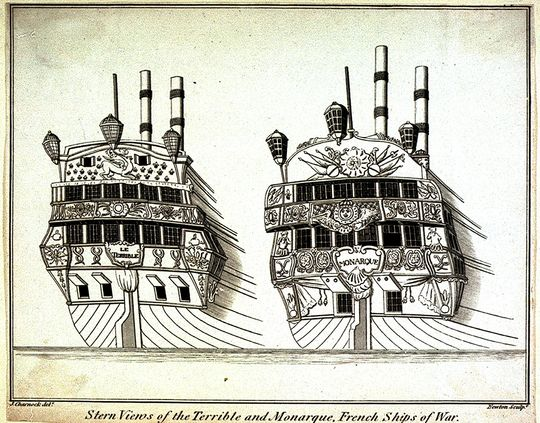 The Terrible and the Monarch. Rear view of two vessels captured in 1747 at the Battle of Cape Finisterre (October 1747). The two ships of 74 guns were integrated into the Royal Navy.